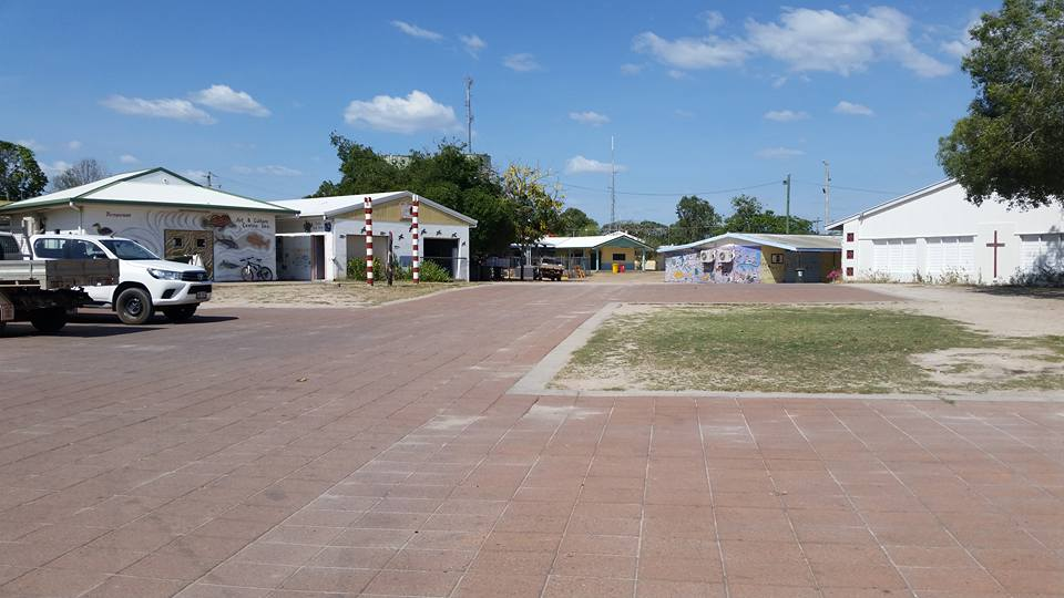 Pormpuraaw